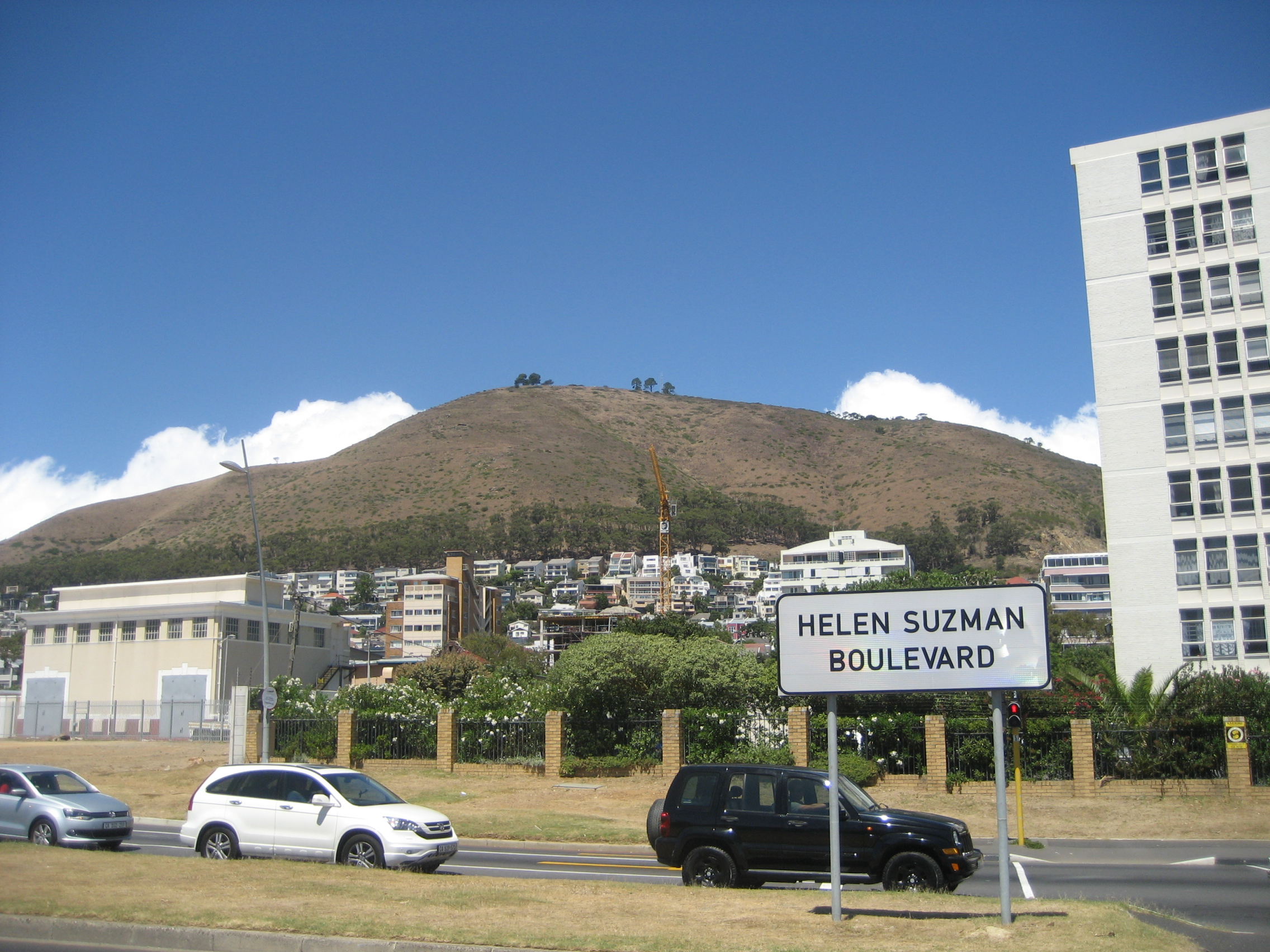 Helen Suzman Boulevard, Cape Town (South Africa). Former name: Western Boulevard; renamed Helen Suzman Boulevard November 2011